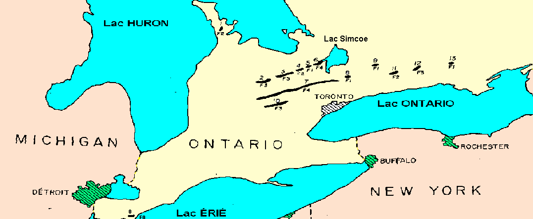 French version from map in on NOAA report showing the track of tornadoes in Ontario during the May 31st, 1985 Outbreak. Under is the area affected corresponding to the numbers on the map